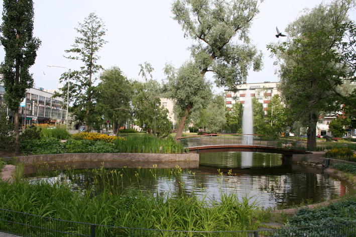 By the Ankkalammi -pond in the centre of Forssa